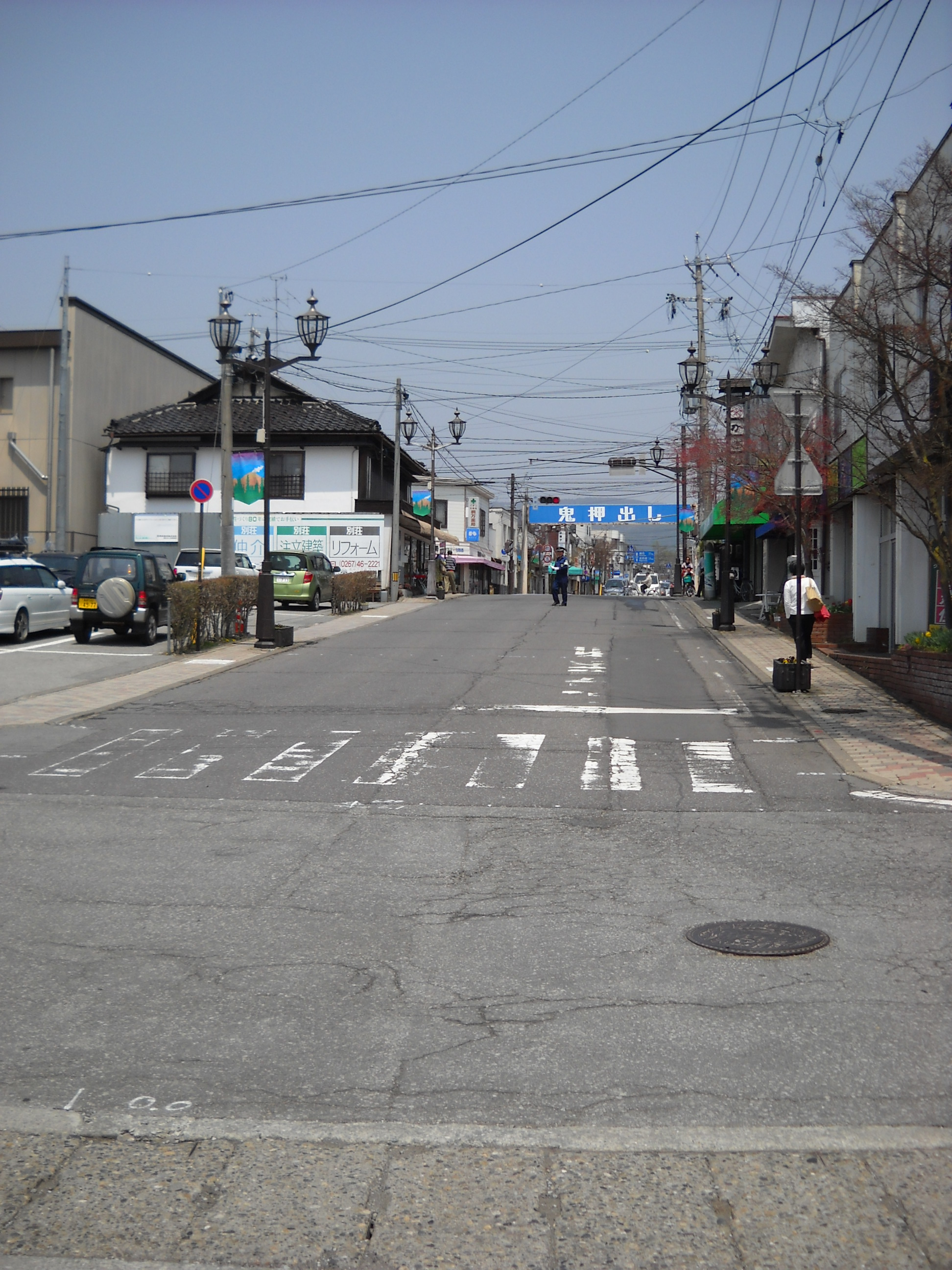 Nagano Prefectural Road 157, Japan